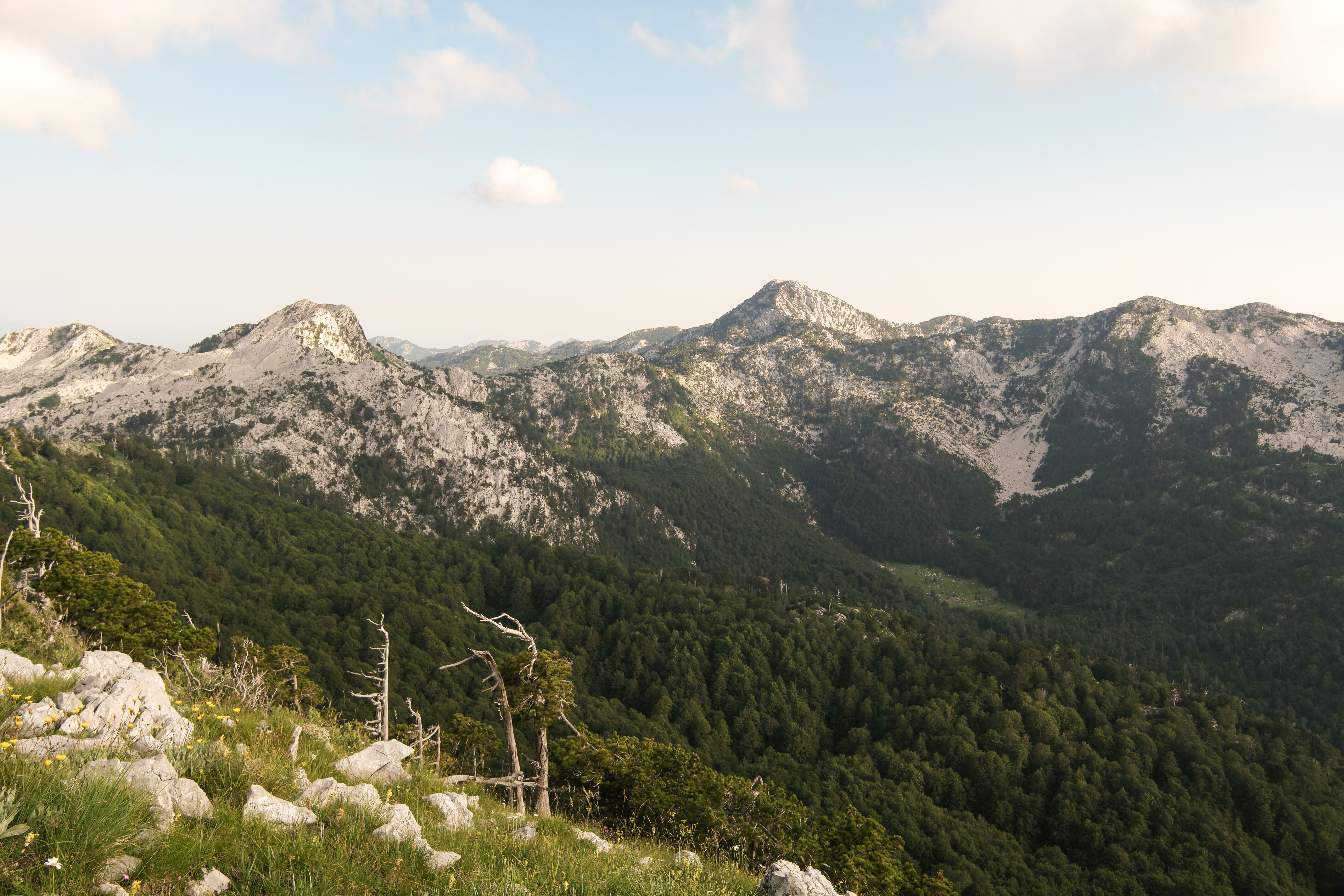 Vucji zub and Zubacki kabao seen from Krsljiv mramor - Mt Orjen, Montenegro